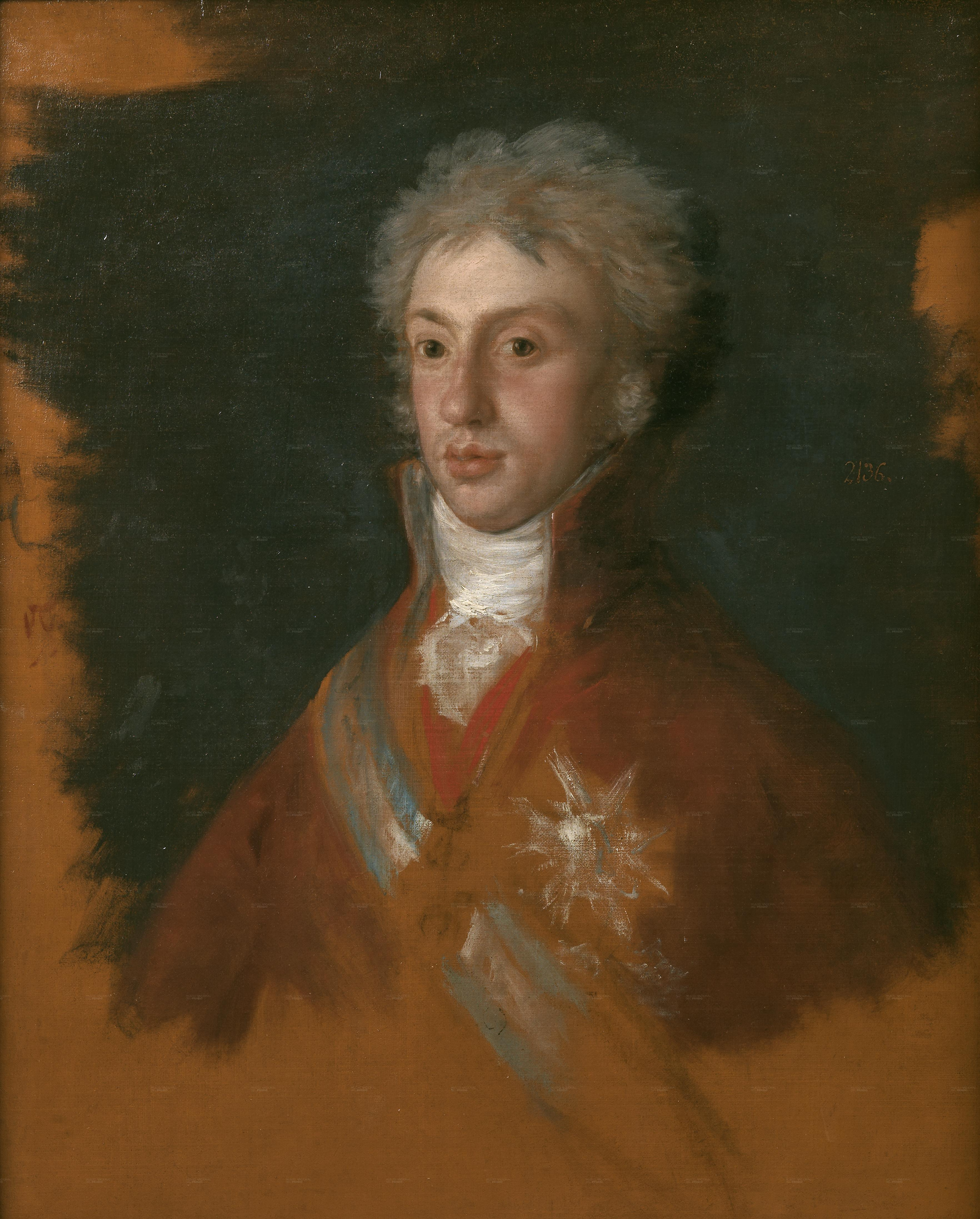 King Louis I of Etruria, son of Duke Ferdinando of Bourbon-Parma and Maria Amalia of Austria, grandson of Holy Roman Emperor Franz I. Stephan of Lorraine and Empress Maria Theresia of Austria